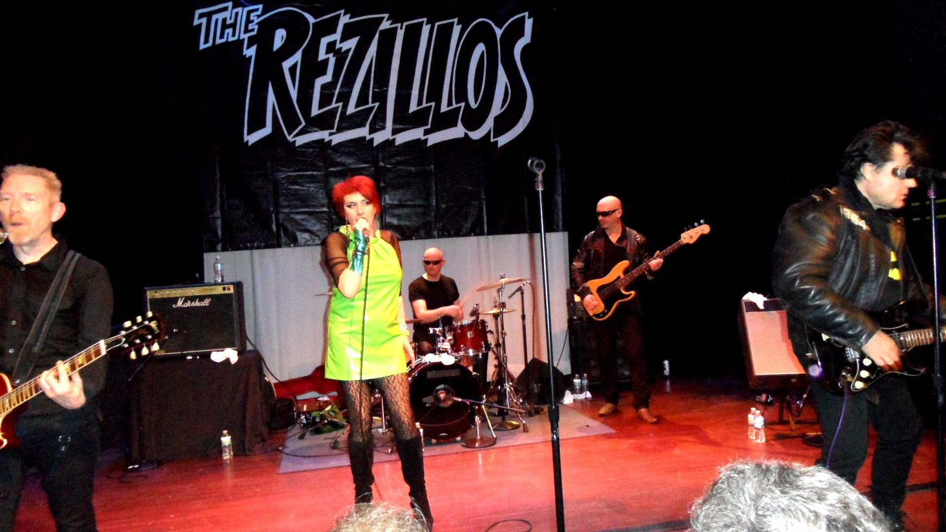 Performing at the Mayne Stage in Chicago. L-R: Jim Brady, Fay Fife, Angel Patterson, Chris Agnew, Eugene Reynolds